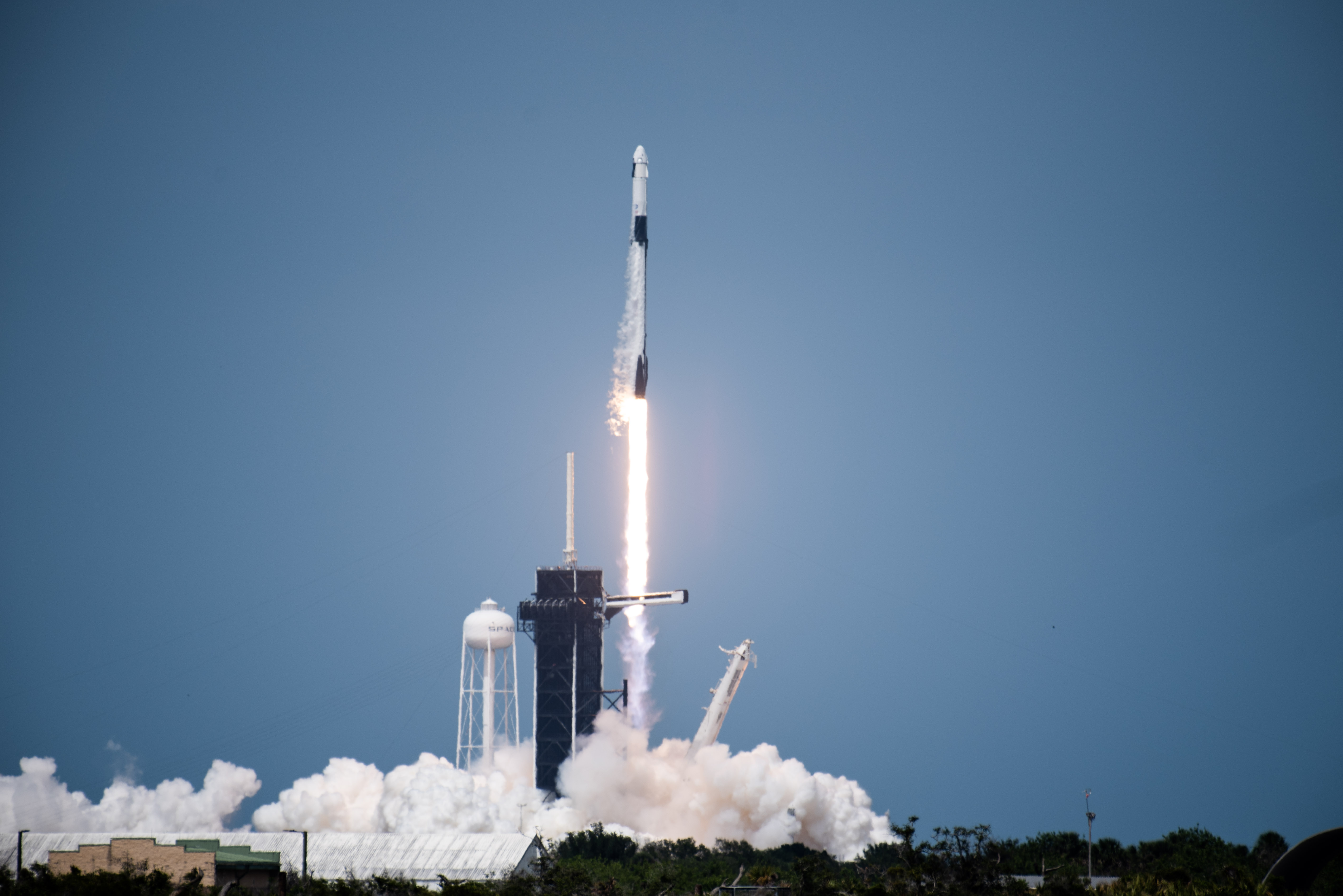 This photo was taken from the press site at Kennedy Space Center in Florida. It shows a Falcon 9 rocket carrying two astronauts in the Crew Dragon capsule on the Demo-2 mission to the International Space Station.